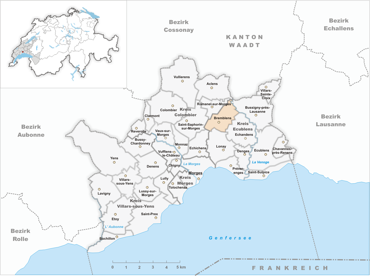 Municipality Bremblens